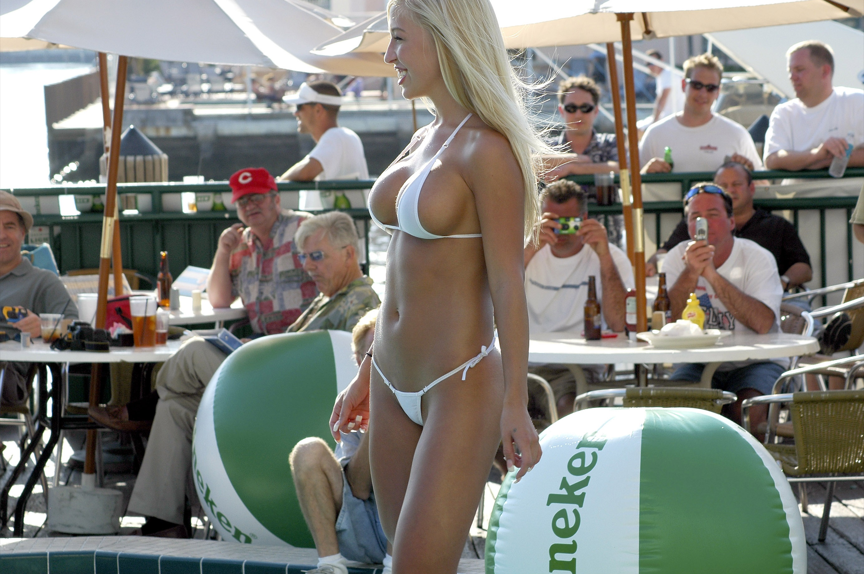 Hot Body contest, Florida (lossily-cropped without borders)